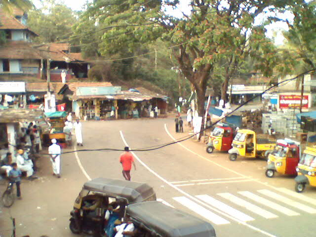 tharuvana town photo